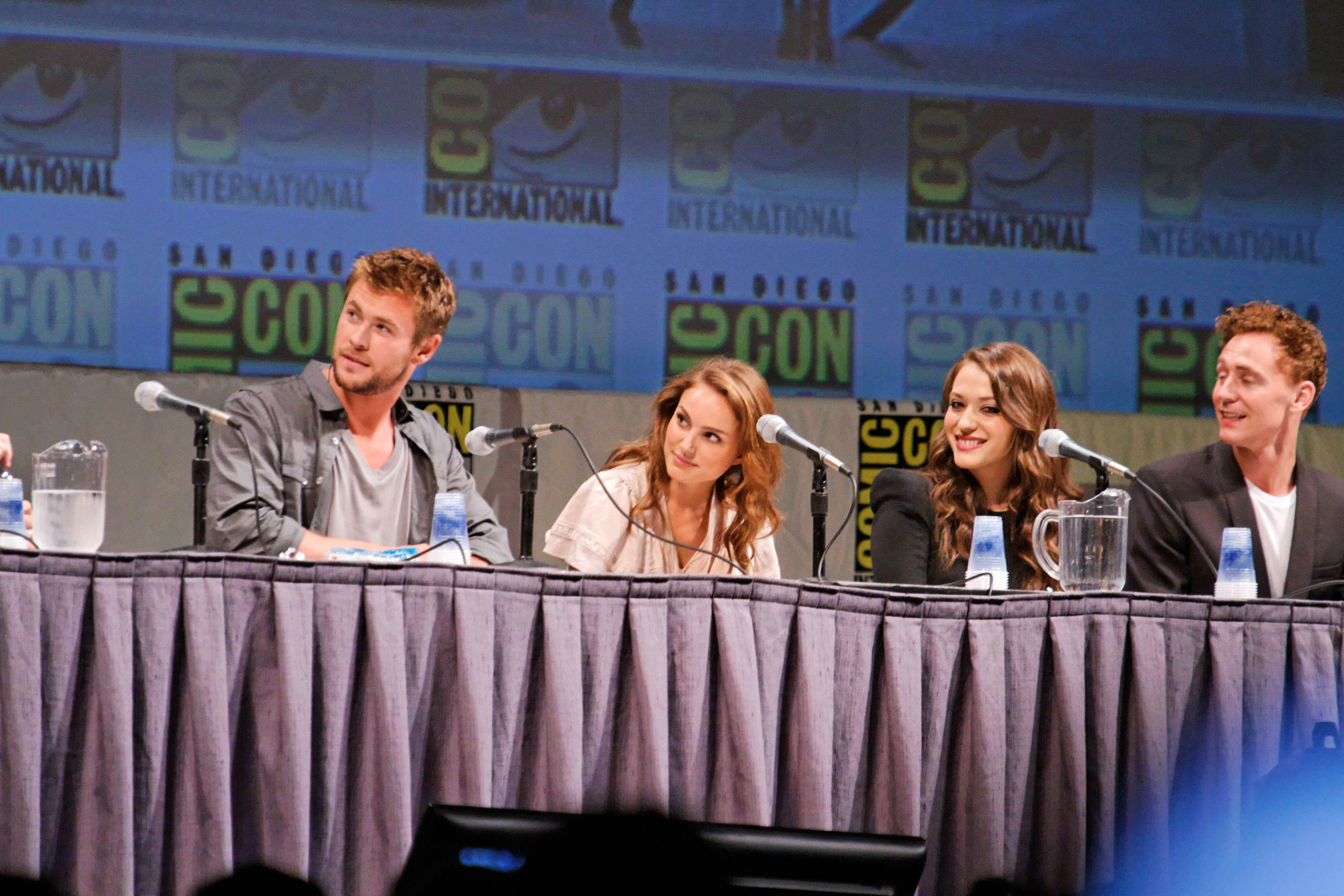 Thor co-stars (photo left to right) Chris Hemsworth, Natalie Portman, Kat Dennings and Tom Hiddleston